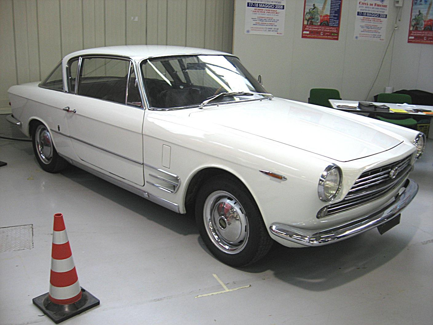 Subject:Fiat 2300 S Coupé Author:Luc106 Date:March 15th, 2007 Event:Old Timer Show 2008 Place/Country: Forlì, Italy I release all rights in the public domain.